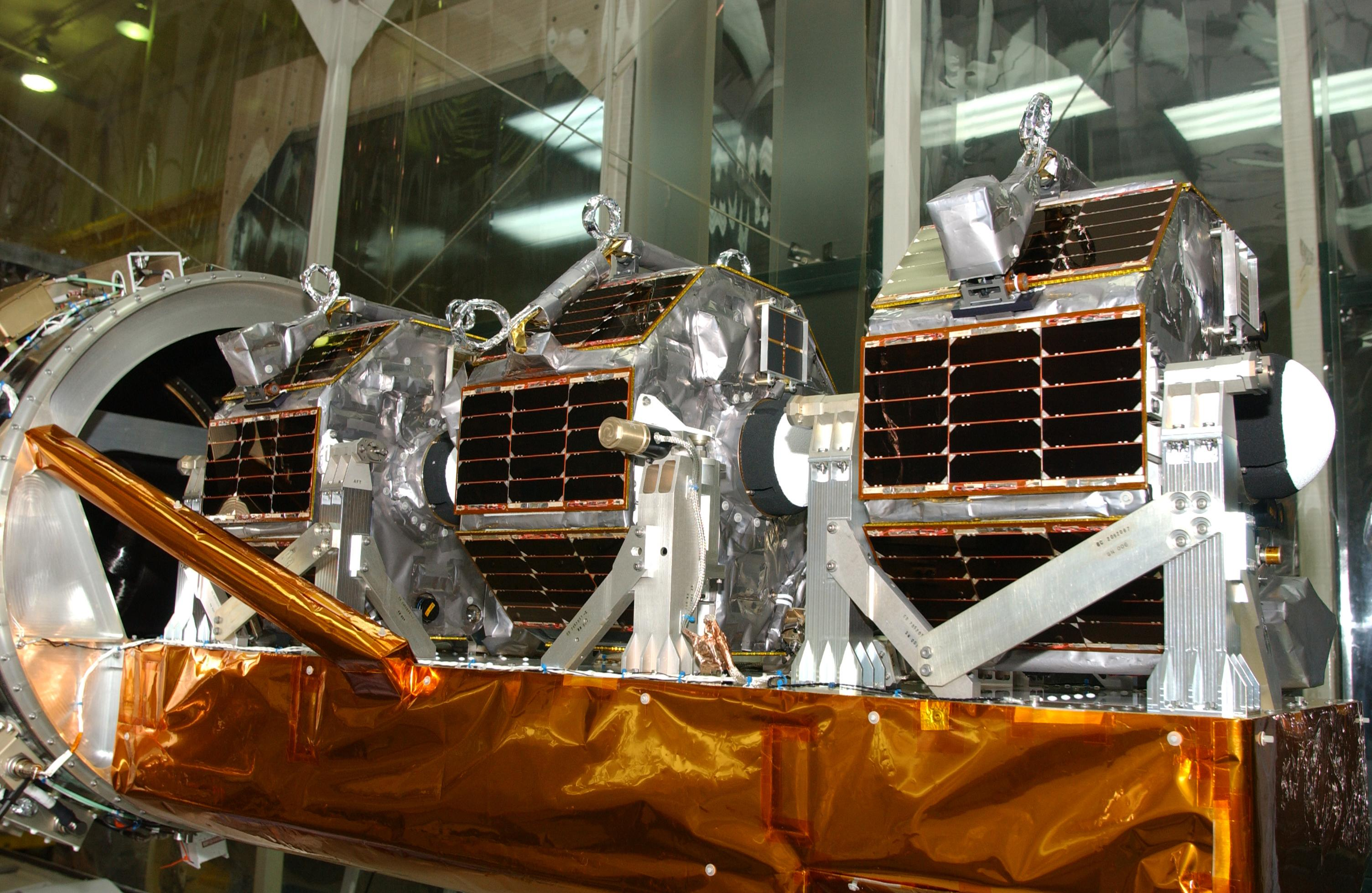 Inside Orbital Sciences’ Building 1555 at Vandenberg Air Force Base in California, this closeup shows the Space Technology 5 (ST5) spacecraft's microsatellites mounted on the payload structure. The spacecraft will be enclosed for launch. The ST5 contains three microsatellites with miniaturized redundant components and technologies. Each will validate New Millennium Program selected technologies, such as the Cold Gas Micro-Thruster and X-Band Transponder Communication System. After deployment from the Pegasus, the micro-satellites will be positioned in a “string of pearls” constellation that demonstrates the ability to position them to perform simultaneous multi-point measurements of the magnetic field using highly sensitive magnetometers. The data will help scientists understand and map the intensity and direction of the Earth’s magnetic field, its relation to space weather events, and affects on our planet. With such missions, NASA hopes to improve scientists’ ability to accurately forecast space weather and minimize its harmful effects on space- and ground-based systems. Launch of ST5 is scheduled from the belly of an L-1011 carrier aircraft no earlier than March 14 from Vandenberg Air Force Base.